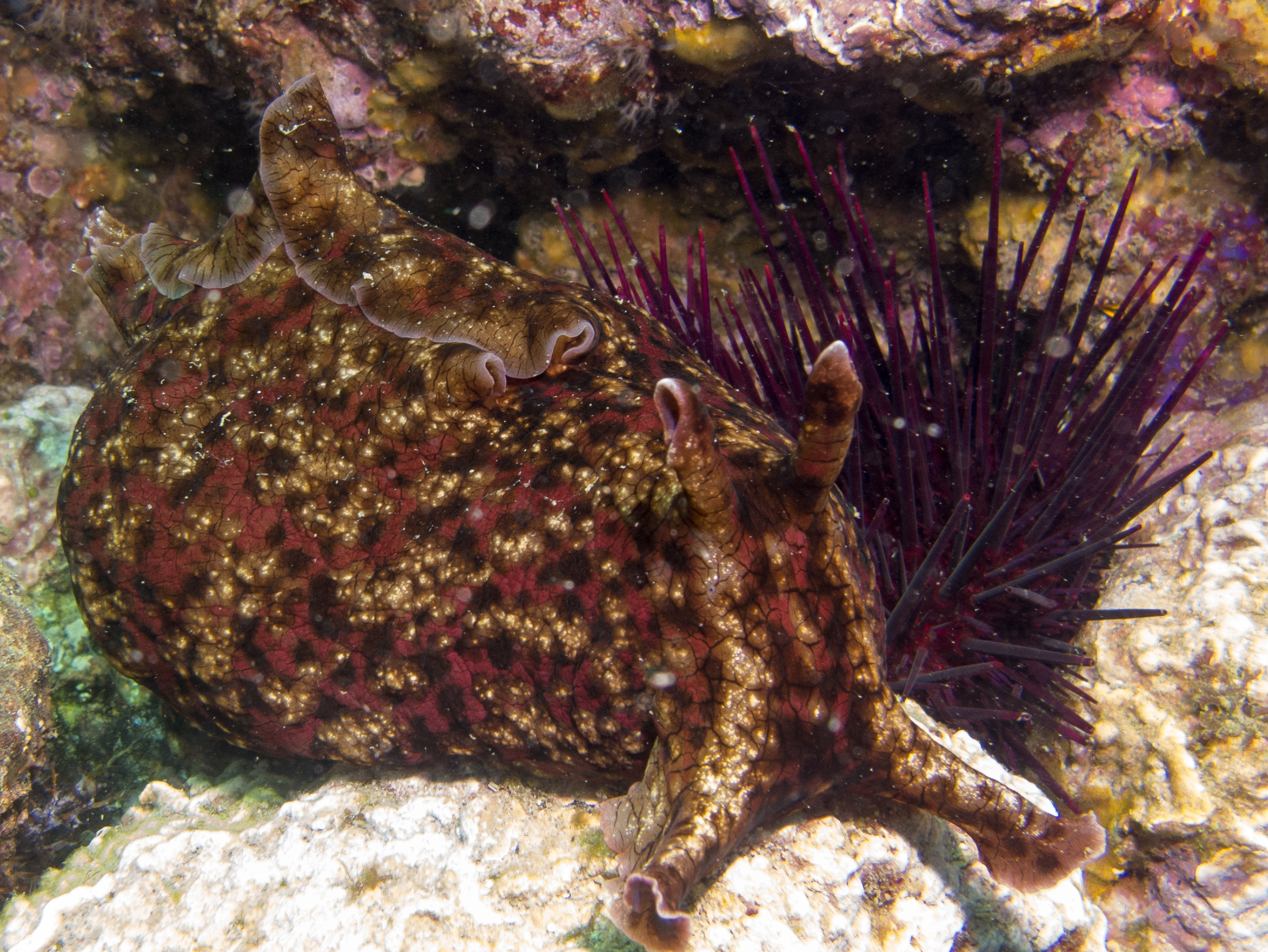 Aplysia californica, Northern California Rainbow Diver's Channel Island Trip, 2013 - Santa Cruz & San Miguel Islands